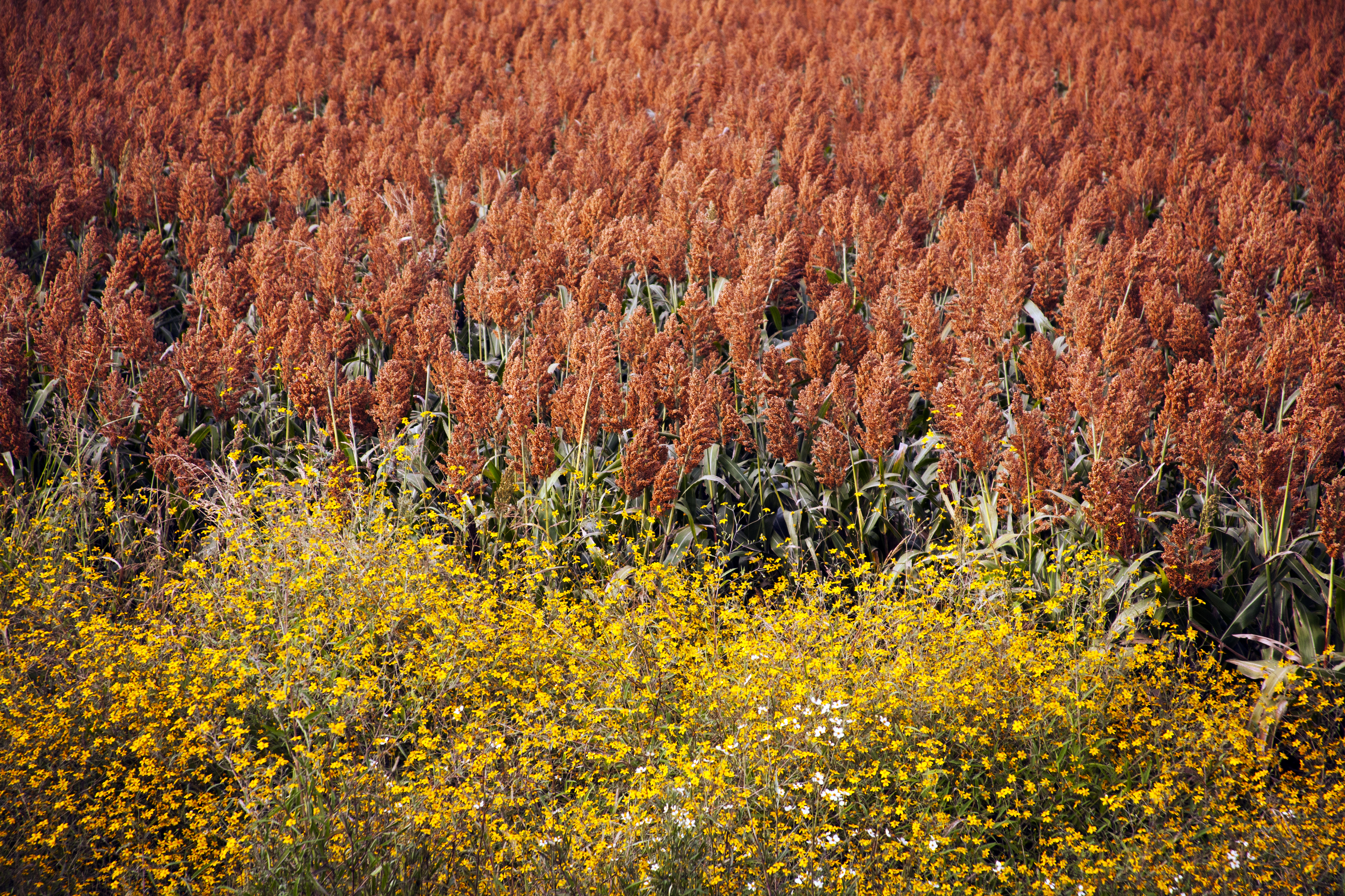 Sorghum field in the state of Guanajuato, Mexico.